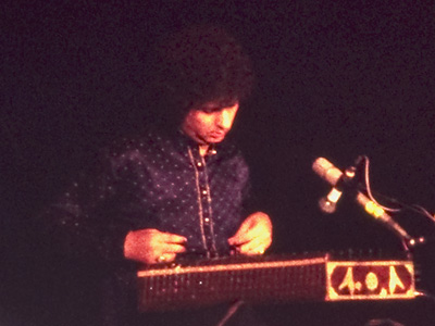 Shiv Kumar Sharma is a master of the santoor.